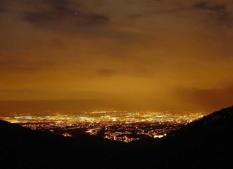 Domagoj BorÅ¡iÄ‡